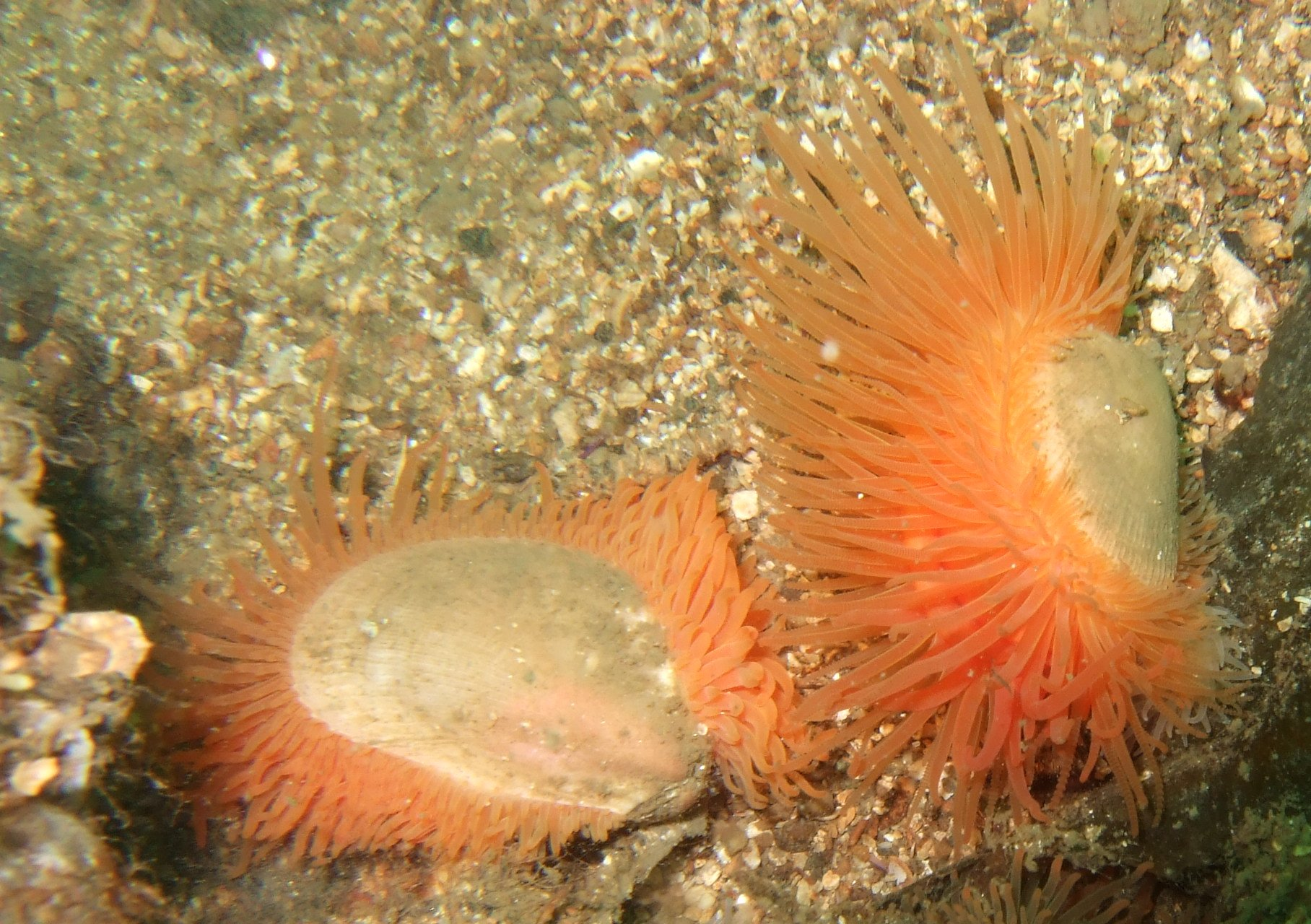 Crop of file in filename